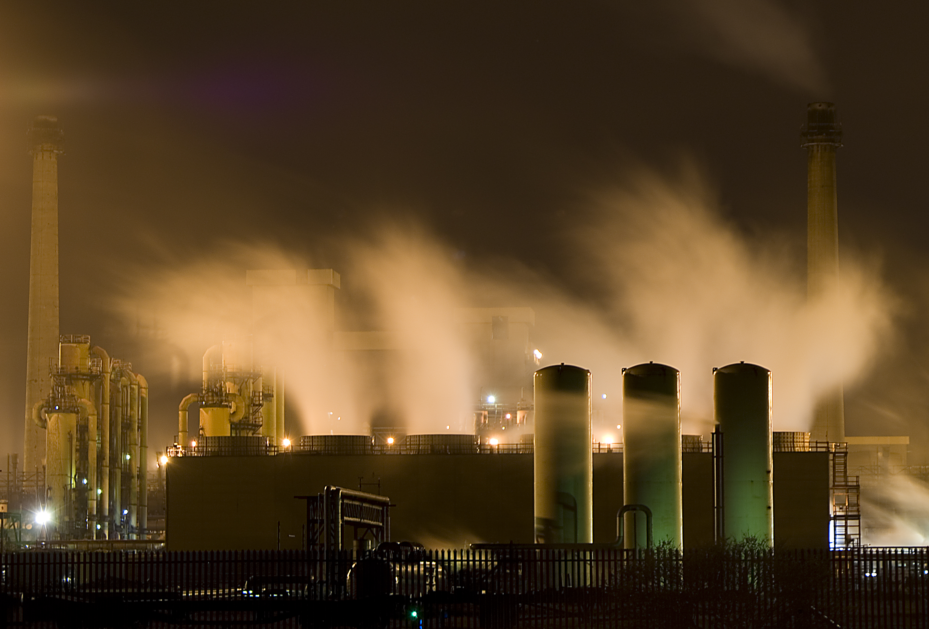 Corus Redcar Steelworks at night